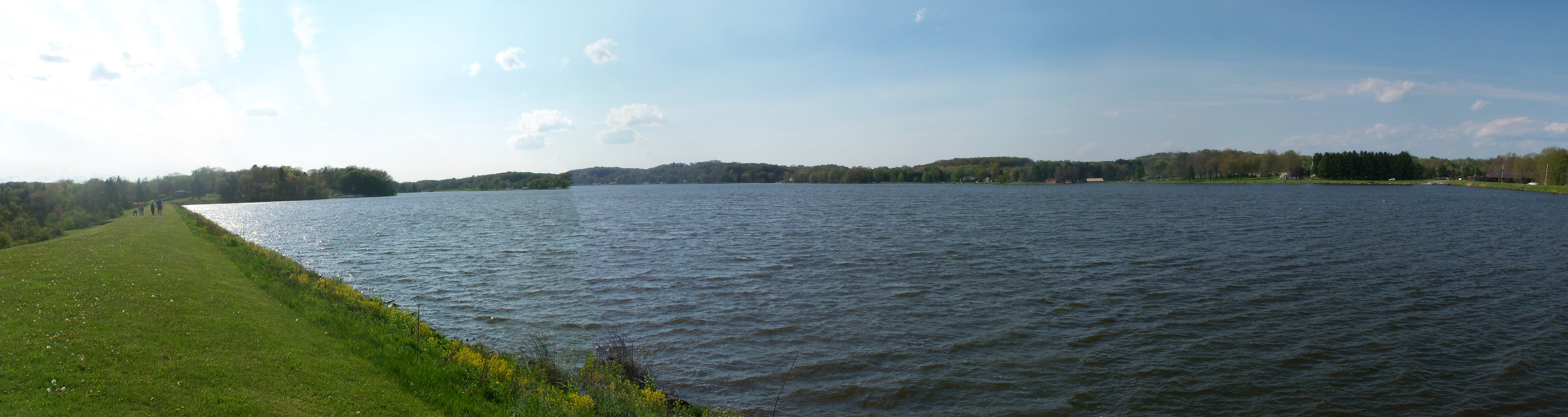 Guilford Lake (Ohio) is within Guilford Lake, Ohio in Columbiana County, Ohio. Seen from east end of dam which runs to west, with lake on north side of dam.